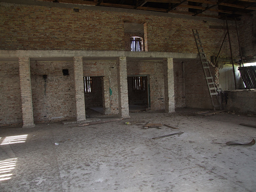 Synagogue in Milejczyce